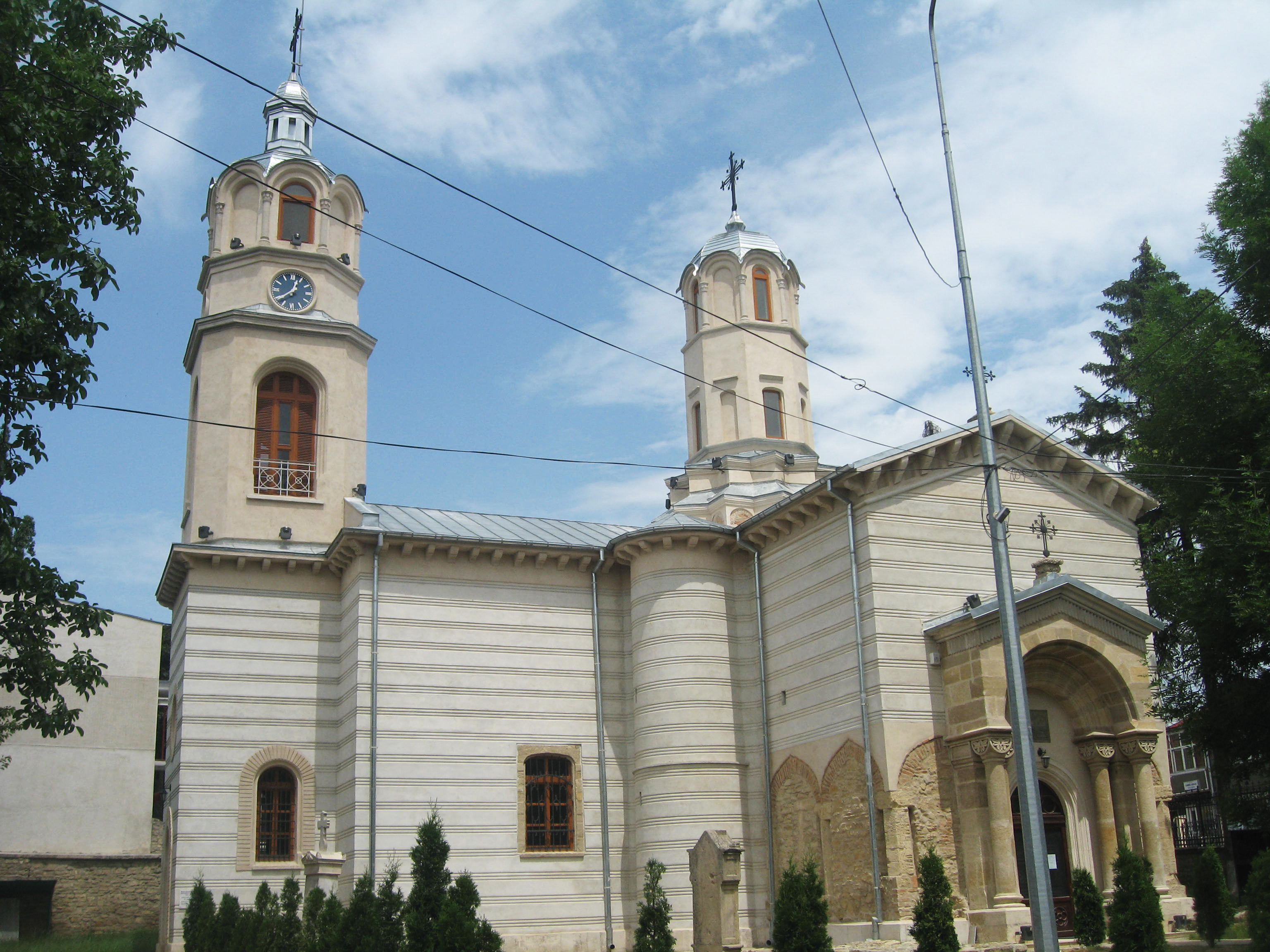 Armenian church in Iași